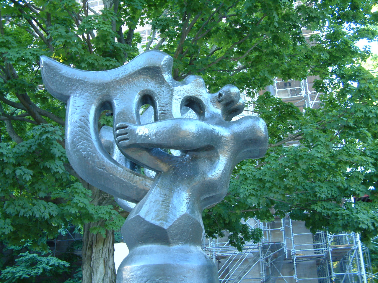 Song of the Vowels, bronze, Jacques Lipchitz, 1931-32, outside Firestone Library at Princeton University.